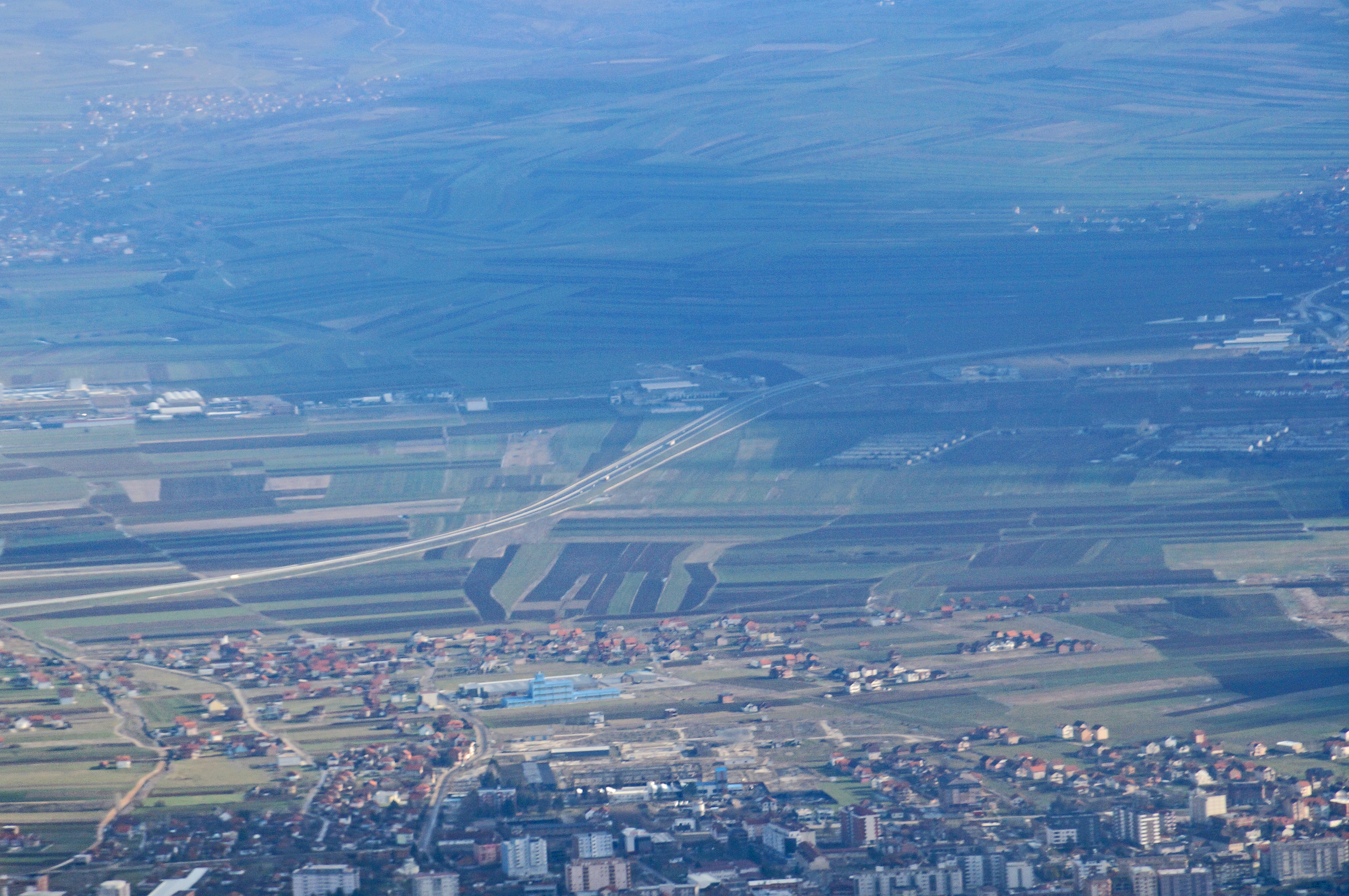 Route 6 east of Lipjan